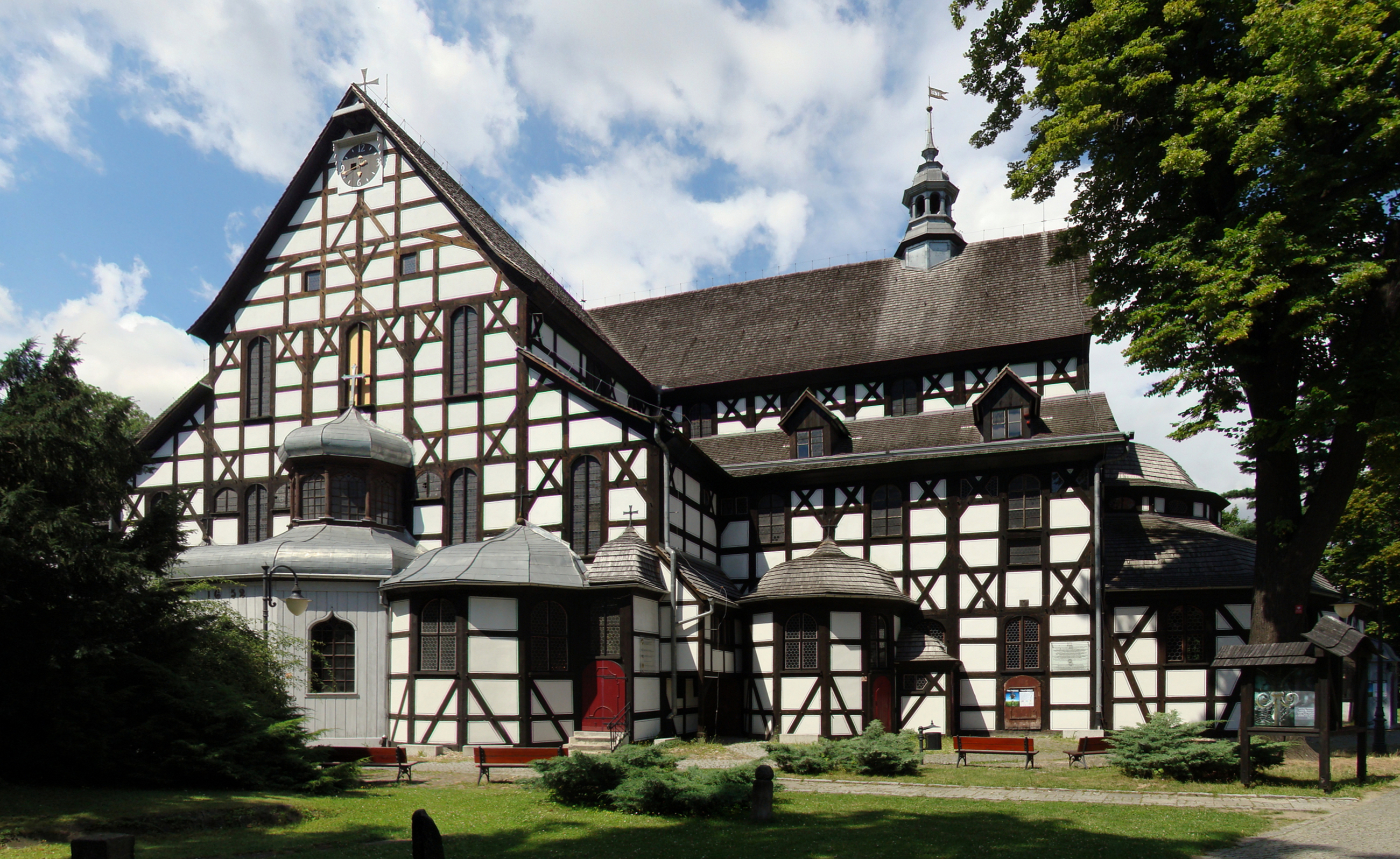 Church of Peace in Świdnica, Poland